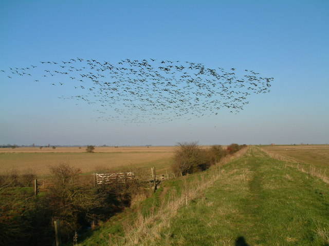 Migrating Birds on Saltmarshes View of the sea defence wall as a flock of migrating birds, disturbed while feeding, rise from the wheat field "en masse".